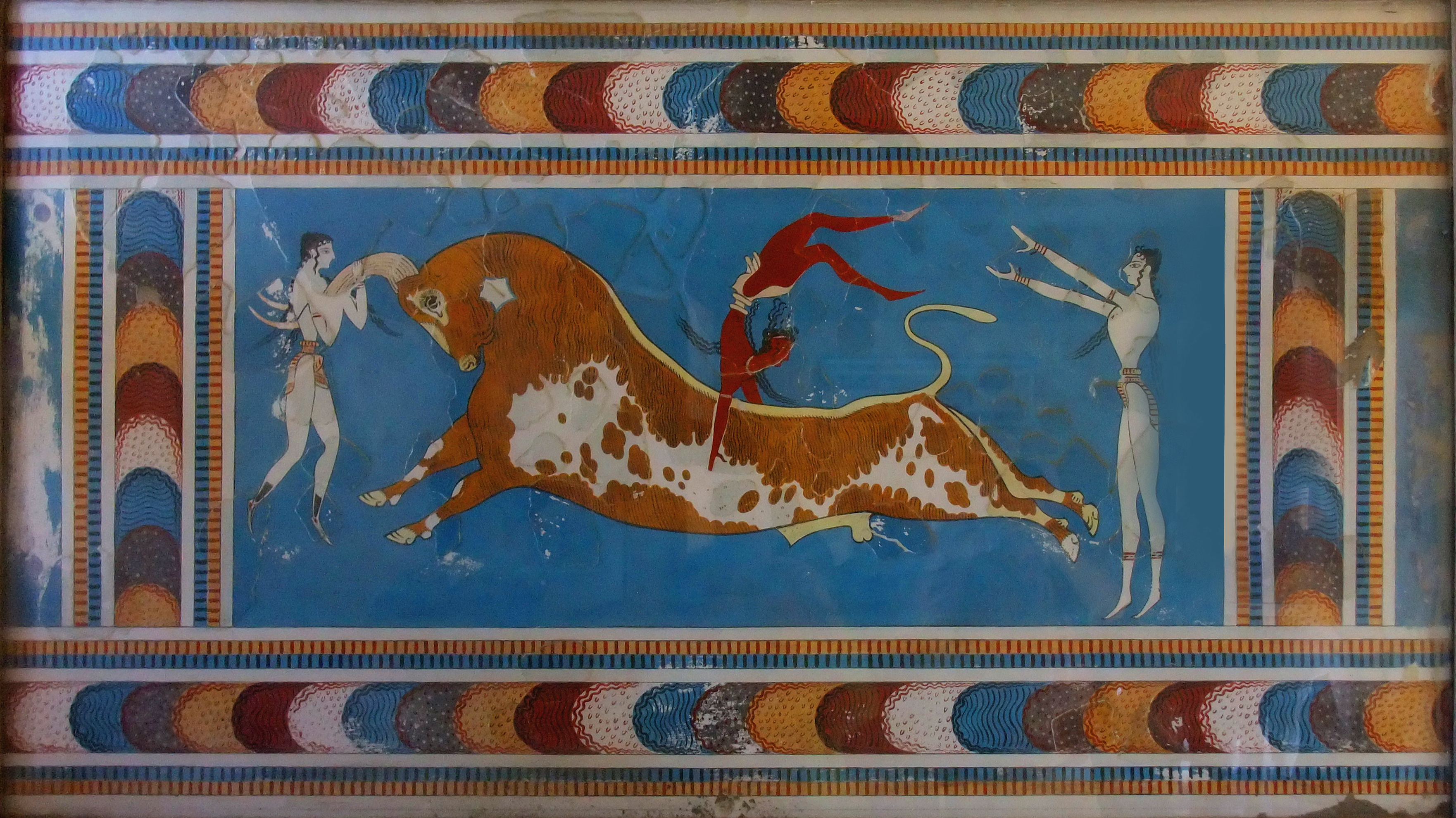 Palace of Knossos, Bull leaping fresco, Crete, Greece